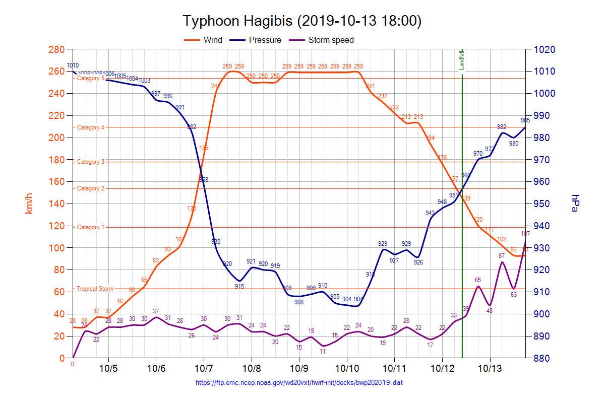 Typhoon Hagibis chart 2019-10-13 0600